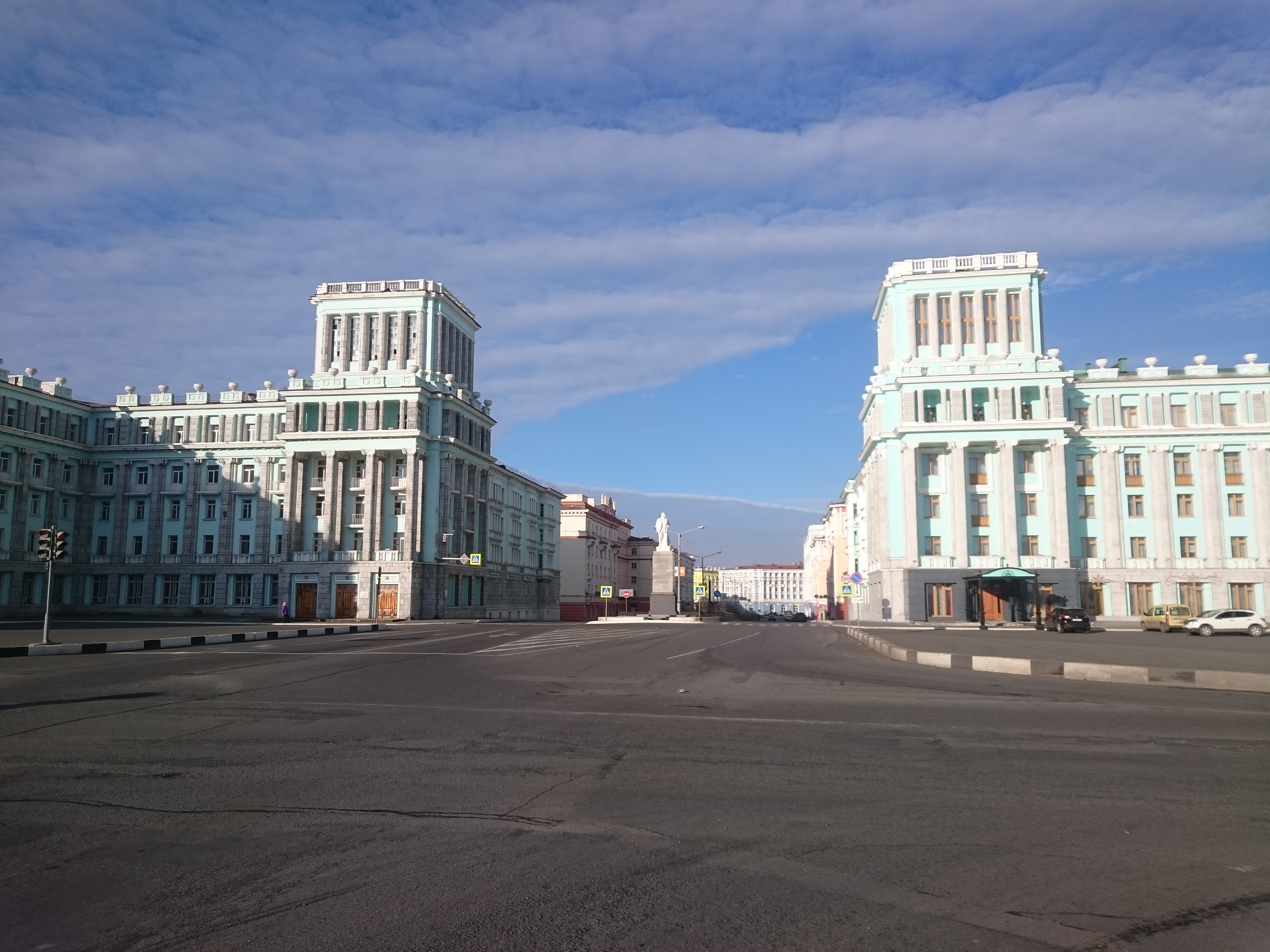 The complex of constructions of the center of the Norilsk (Krasnoyarsk region) — Oktyabrskaya Square